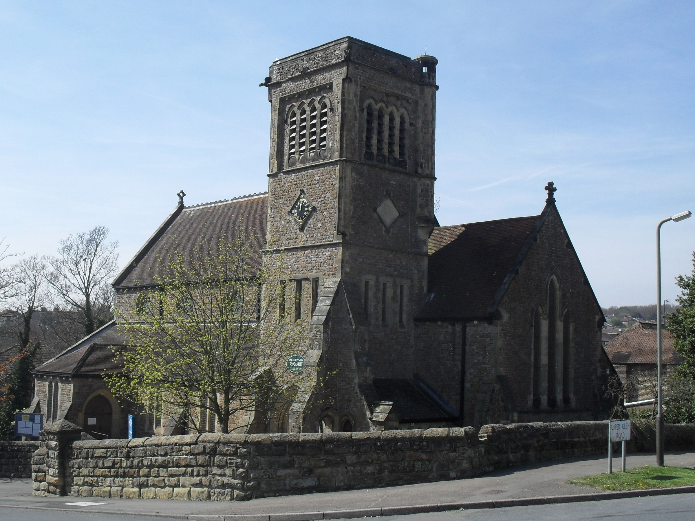 St John the Evangelist's Church, Upper Church Road, Hollington, Hastings, East Sussex, England. Built in 1865 by Alexander Wyon in the Early English Gothic style.